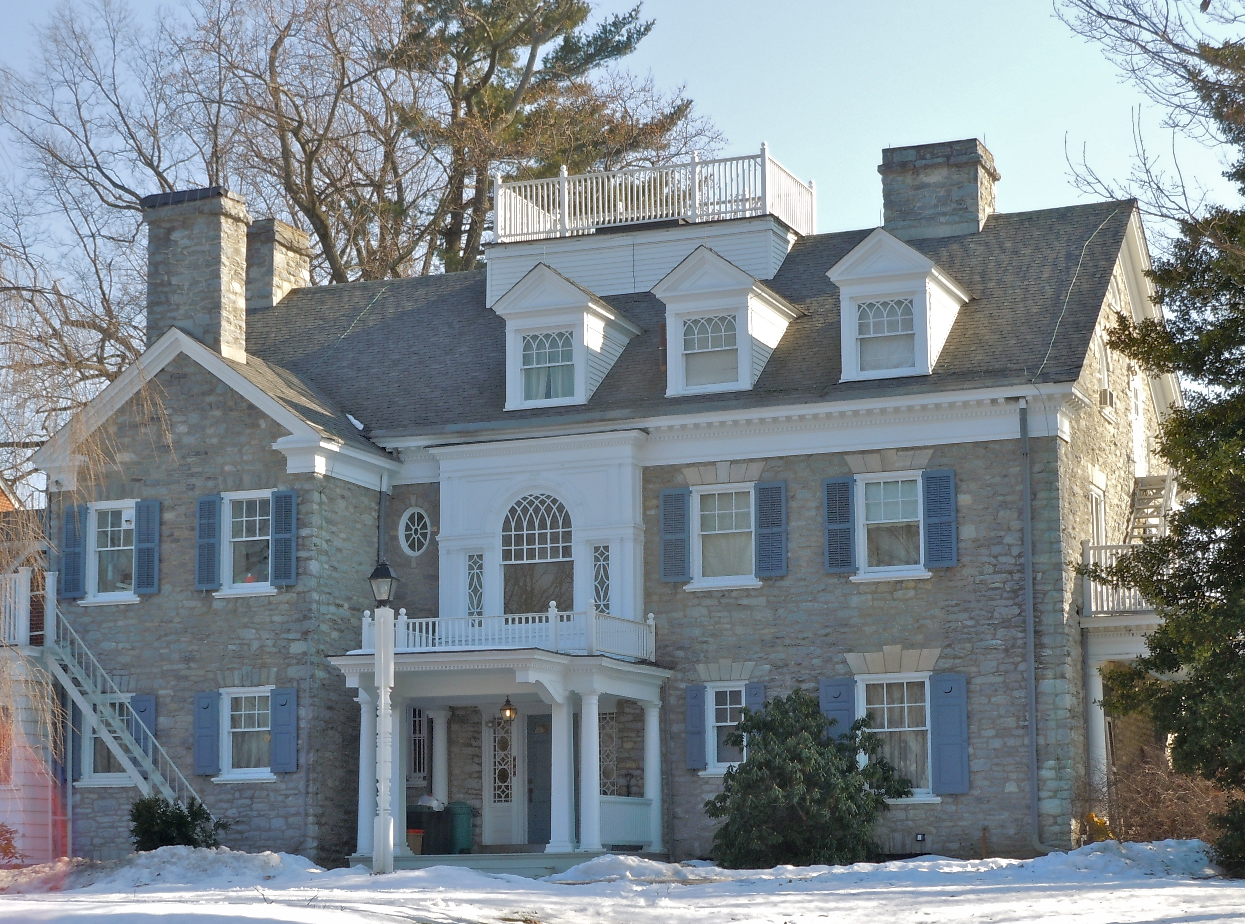 "Whitford Garne" (note the spelling G-a-r-n-e) on the NRHP since September 6, 1984. At 201 West Boot Road (address changed now) in West Whiteland Township, Chester County, Pennsylvania. Early 20th Century estate. Development erected around it now and it is used for a pool and tennis club.